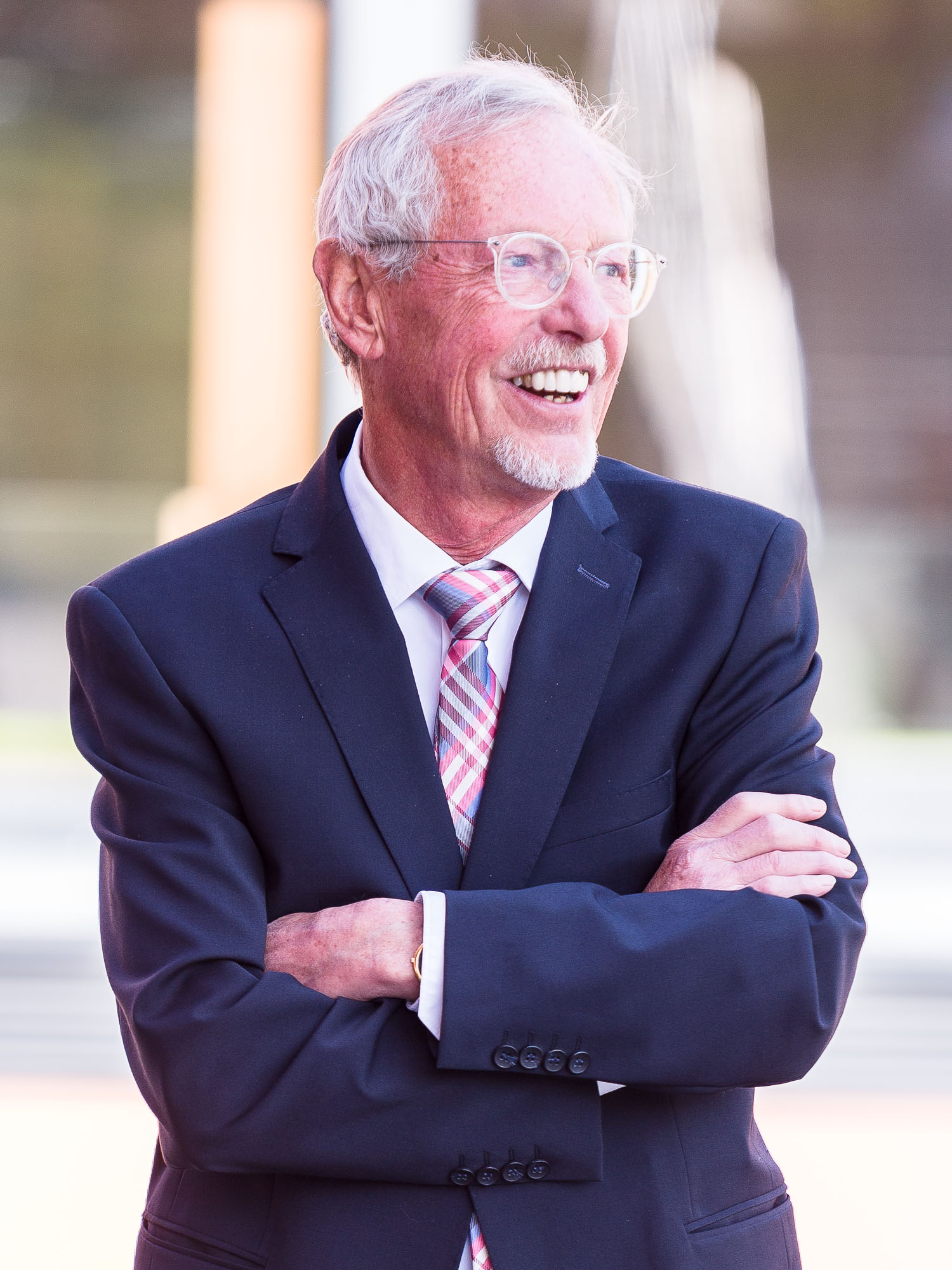 Location: Freiheitshalle Hofe